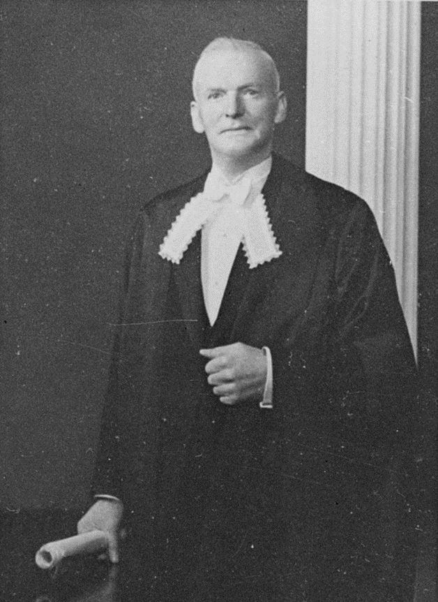 Photo of Mark Fagan in 1943